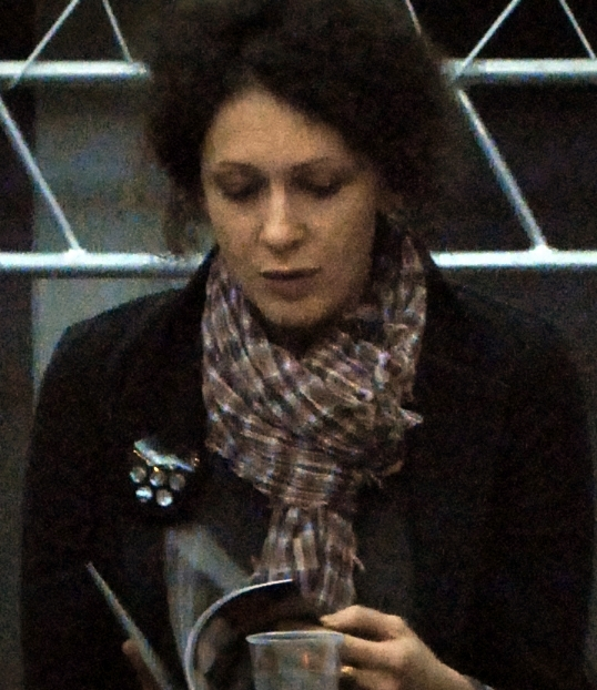 Kseniya Rappoport at the press conference of N.I.C.E. film festival in St. Petersburg, March 3, 2011